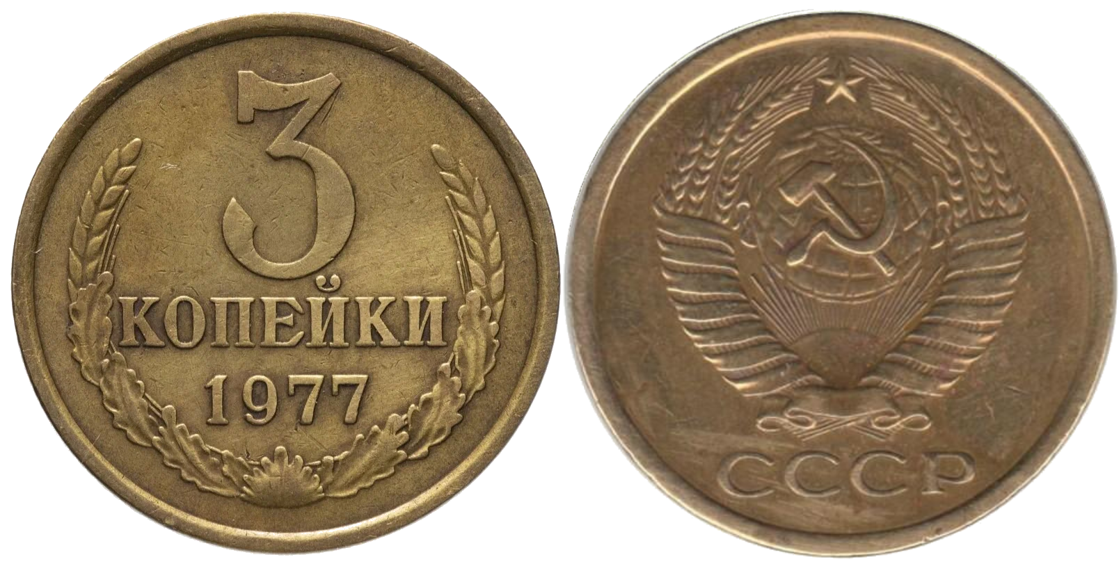 Soviet 3 kopeks (1/100 of a ruble).